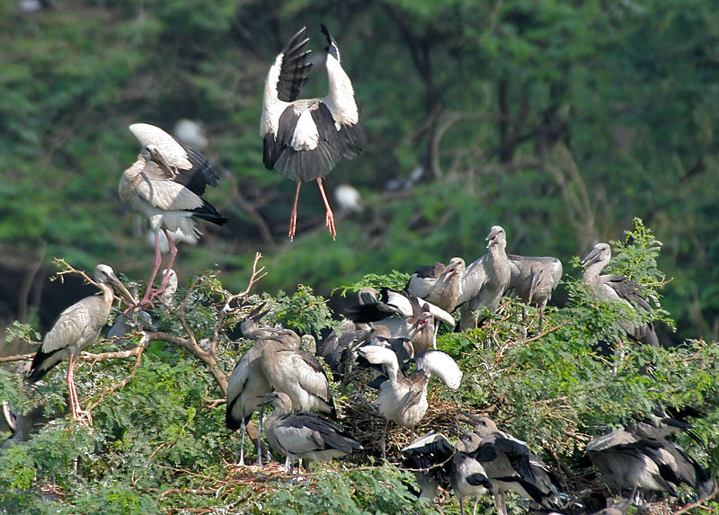 Asian Openbill Anastomus oscitans in Uppalapadu, Andhra Pradesh, India.